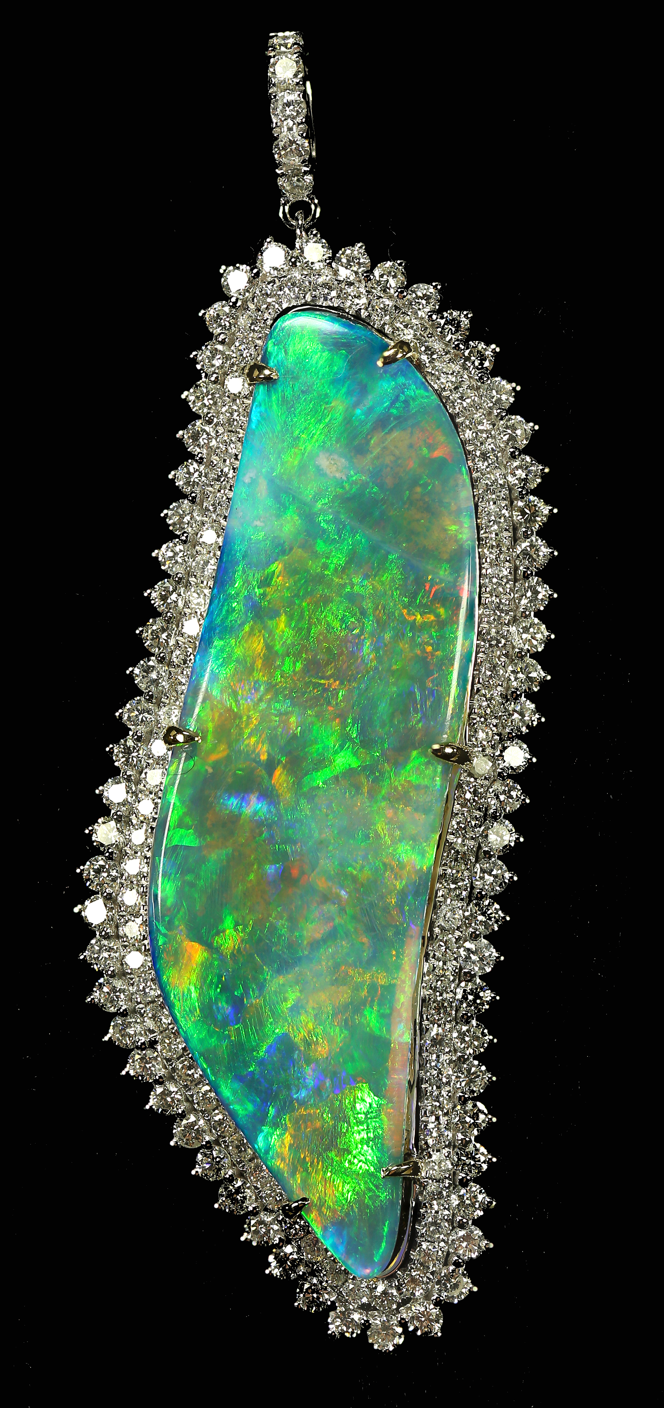 Opal and diamond setting. Opal is from Mintabie, South Australia.